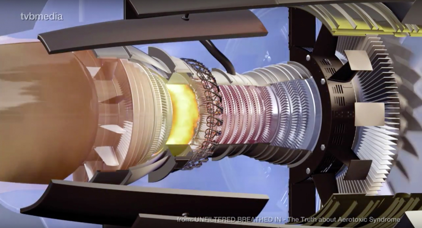 Explanation of bleed air system from the documentary film "Unfiltered Breathed In - The Truth about Aerotoxic Syndrome"